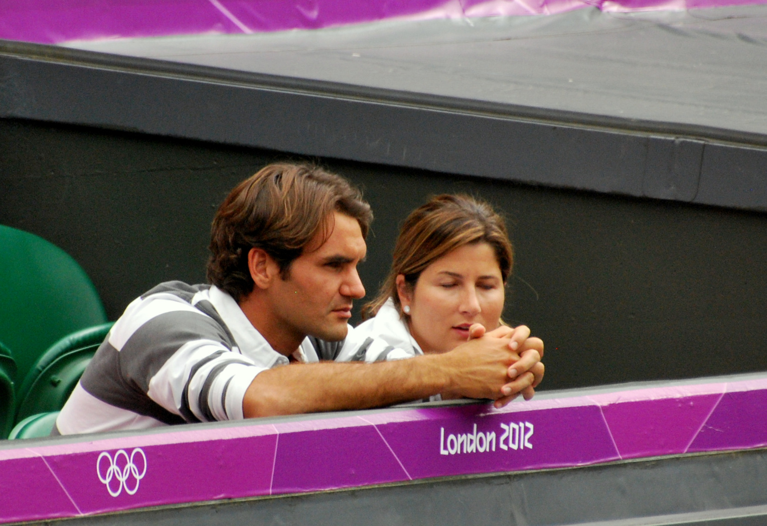 "I'm not cooking tonight, Roger - it's your turn."